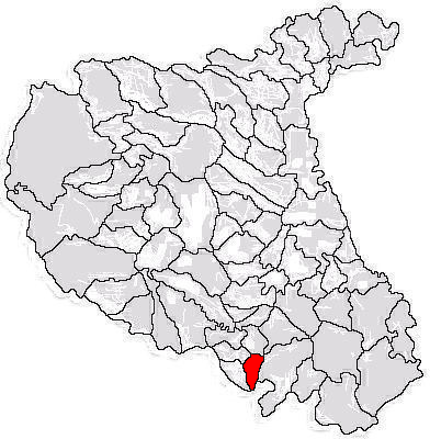 Map of limits of commune in Vrancea County